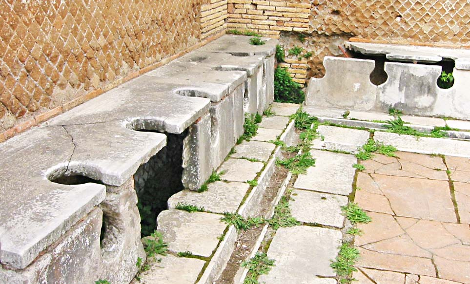 Roman latrines in Ostie.